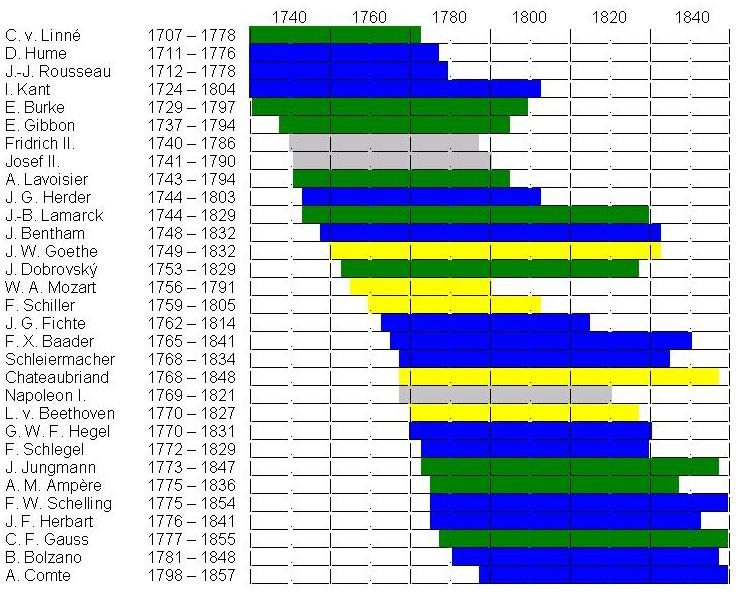 chronology of philosophy around 1790.)